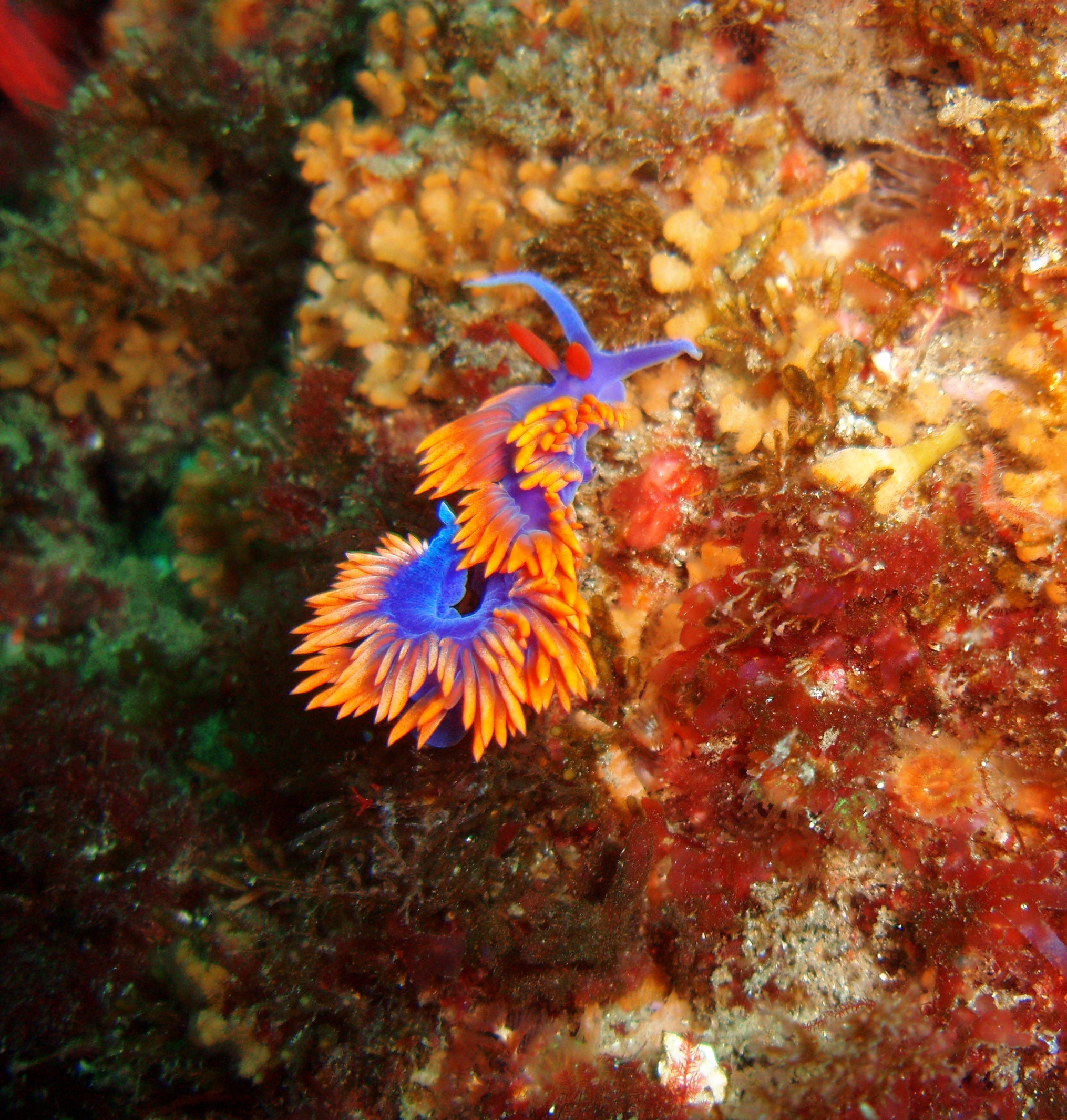 Spanish shawl nudibranch (Flabellina iodinea). California, Channel Islands NMS.